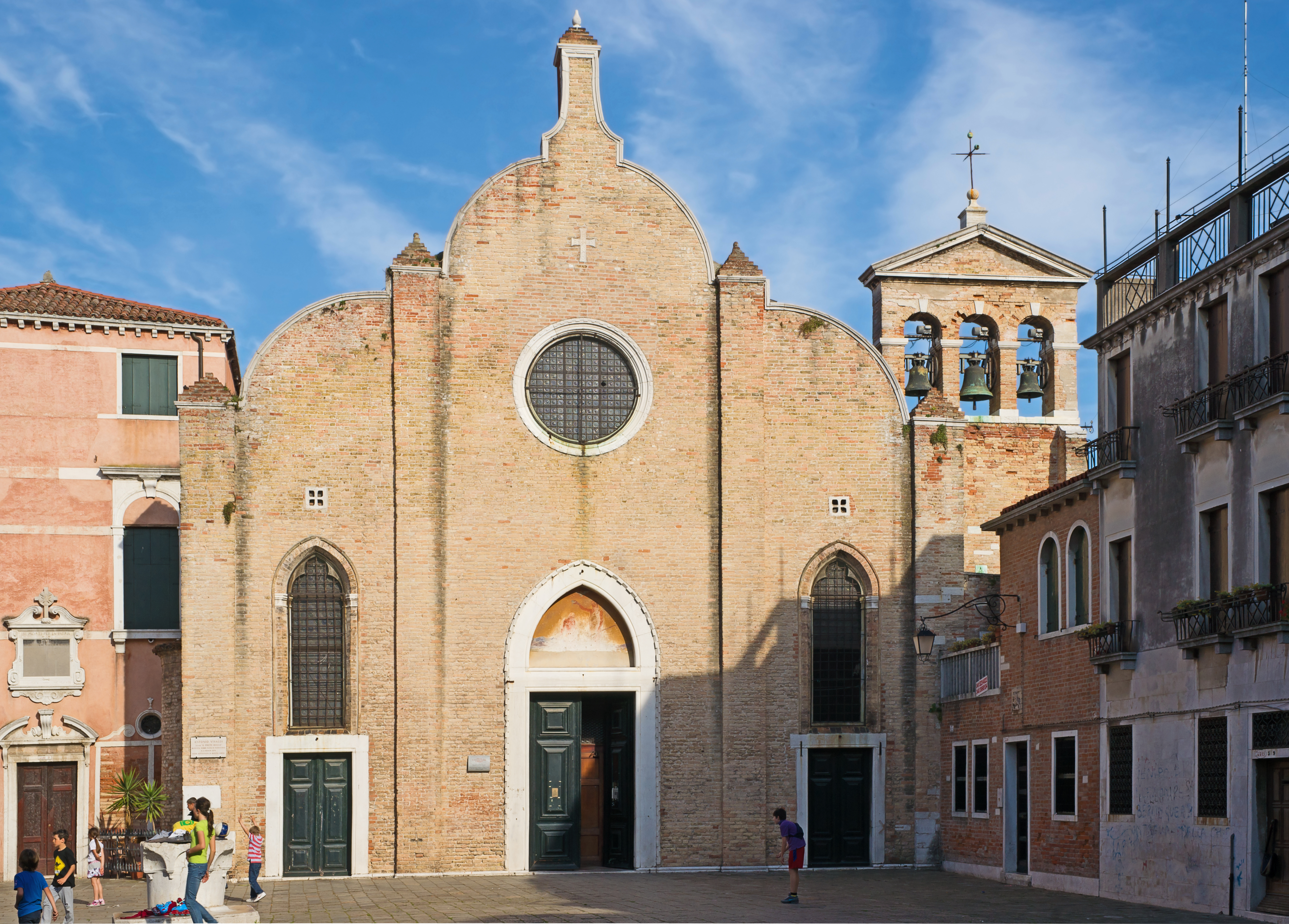 Church of San Giovanni in Bragora in Venice, particularity of the main door. San Giovanni in Bragora Native nameChiesa di San Giovanni in BragoraLocationVenice, ItalyCoordinates45° 26′ 03.84″ N, 12° 20′ 49.2″ E Established7th century date QS:P,+650-00-00T00:00:00Z/7Web page Authority control : Q521260 VIAF: 145861474 LCCN: nr96001479 GND: 4416013-6 WorldCat institution QS:P195,Q521260